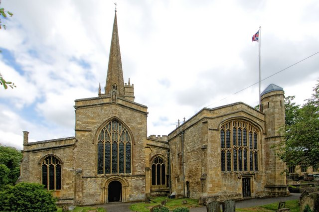 The Church of St John the Baptist, Burford